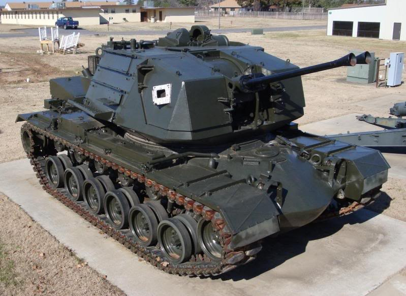 M247 "Sgt York" Division Air Defense Gun (DIVAD). Based on rebuilt M48A5 tank chassis.